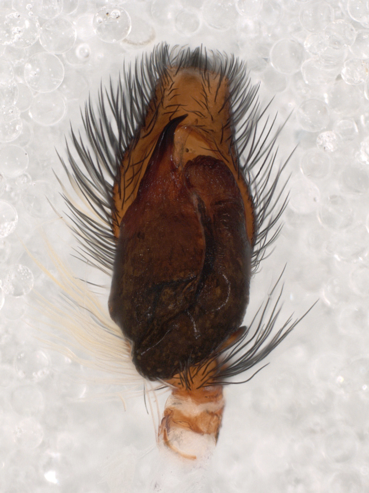 Pedipalp of male Menemerus bivittatus jumping spider in Jamaica